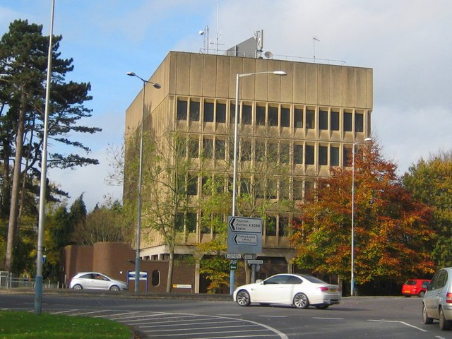 Yeovil Police Station